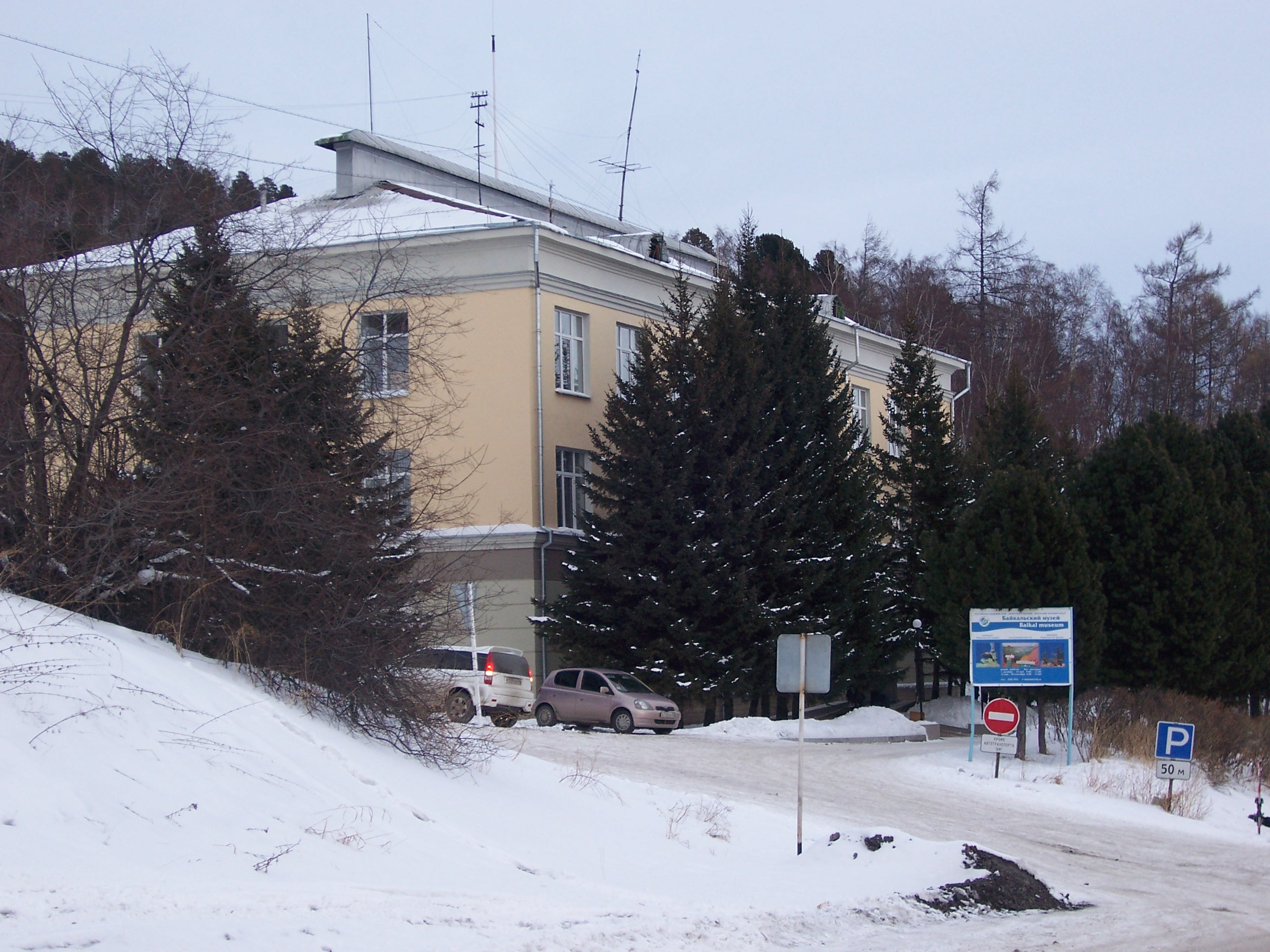 Limnological Institute of the Siberian Branch of Russian Academy in Listwjanka, Lake Baikal